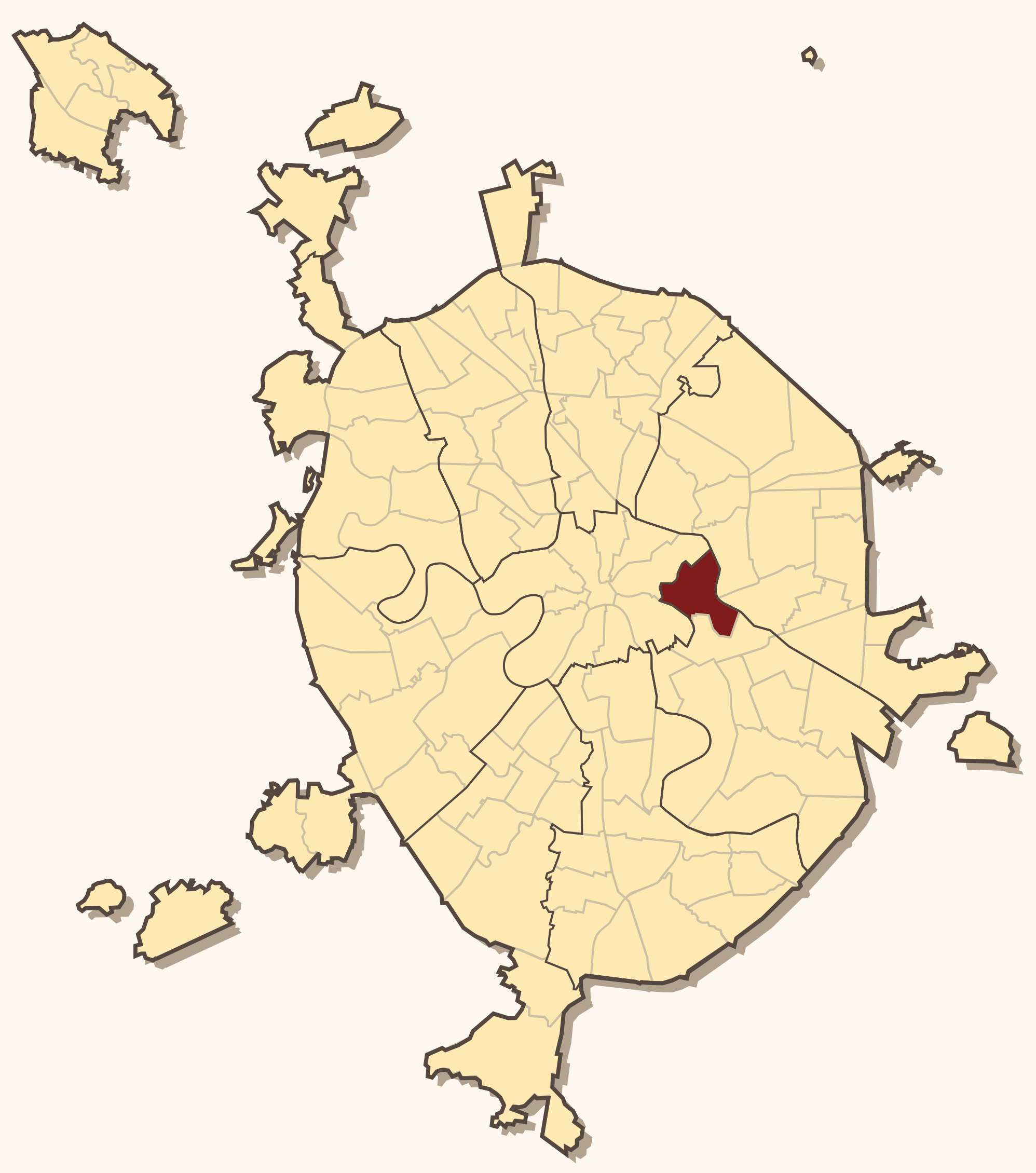 Moscow districts map